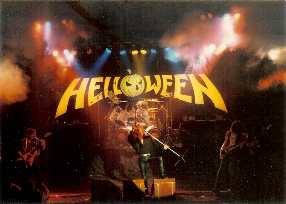 Helloween live